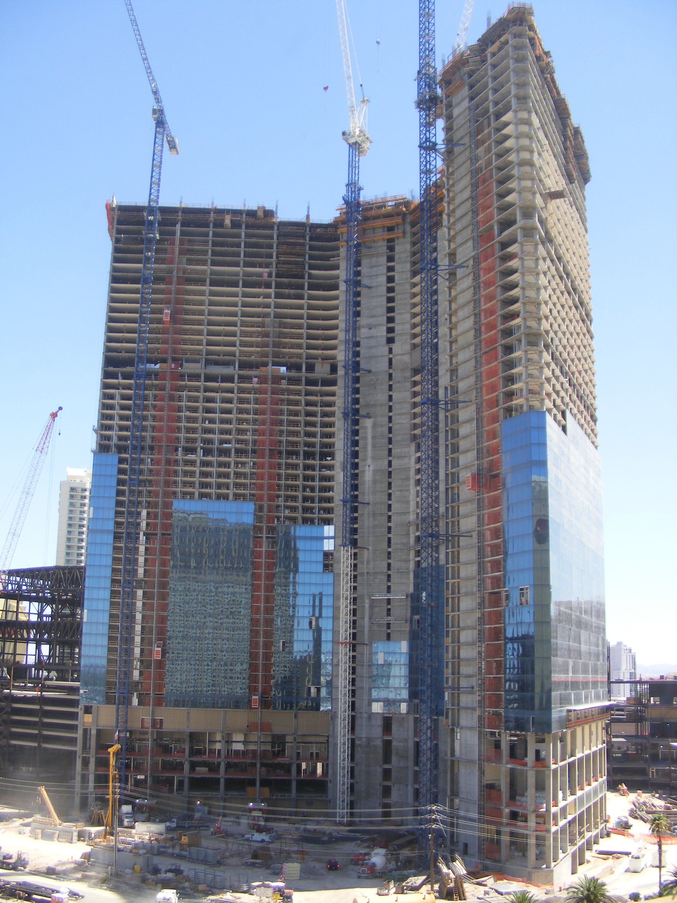 The "Fontainebleau Las Vegas" under construction.